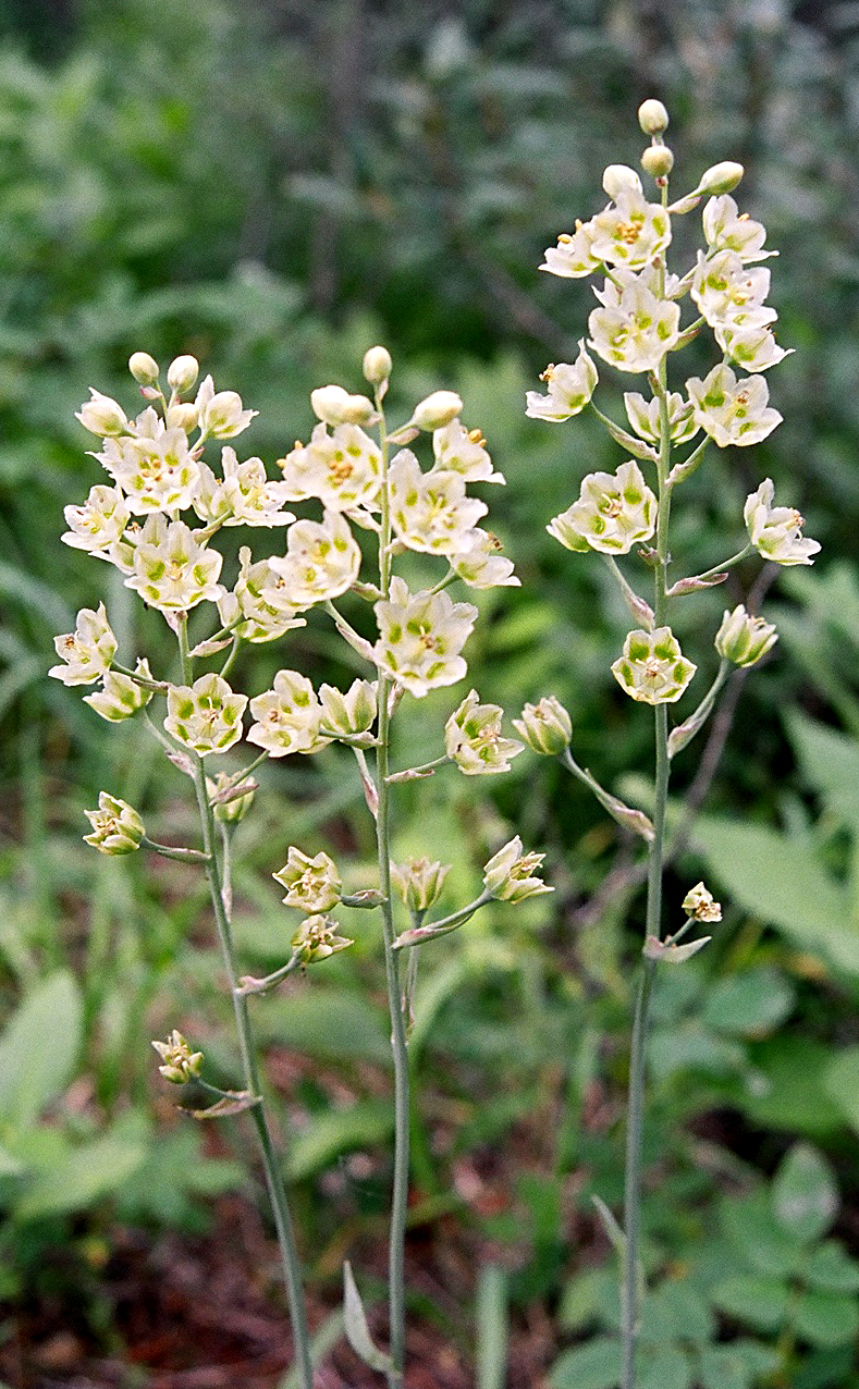 White camas (Zygadenus elegans) is a member of the lily family, and is commonly found in open areas and lightly wooded montane regions. Narrow, pale silver-green leaves at the base compliment the long, showy floral spike, which bears several individual creamy green six-petaled flowers. The bulb of this plant is poisonous, but not so much so as that of its relative, the death camas. Camas blooms from July through August Ø2004 D. Windrim Captioned As {}